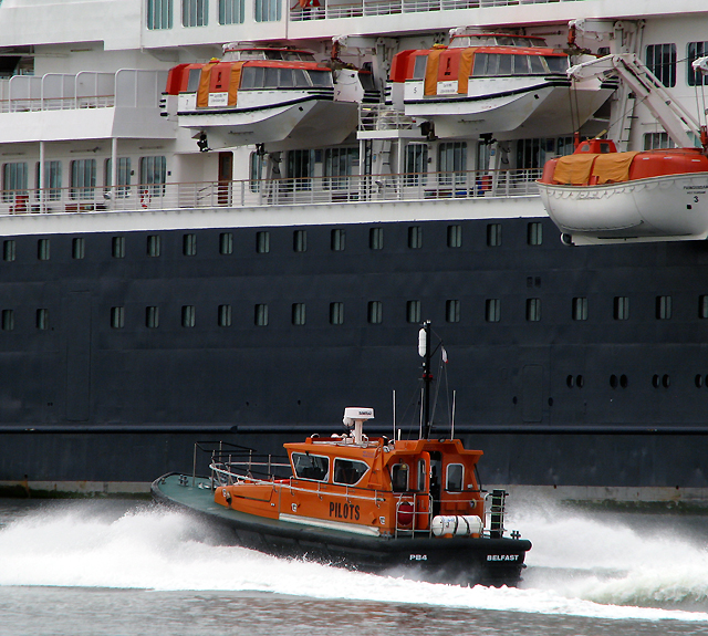 Belfast Harbour Pilot Boat 'PB4'. The Belfast harbour pilots use at least three boats. Usually two of these are kept on duty while a third (on a rotation every few months) is kept out of the water. This boat is called 'PB4' and is seen here heading down the Victoria Channel past the cruise ship 'Prinsendam' 1393349. for more information on the pilotage service in Belfast. See also 7079017 for some related images.